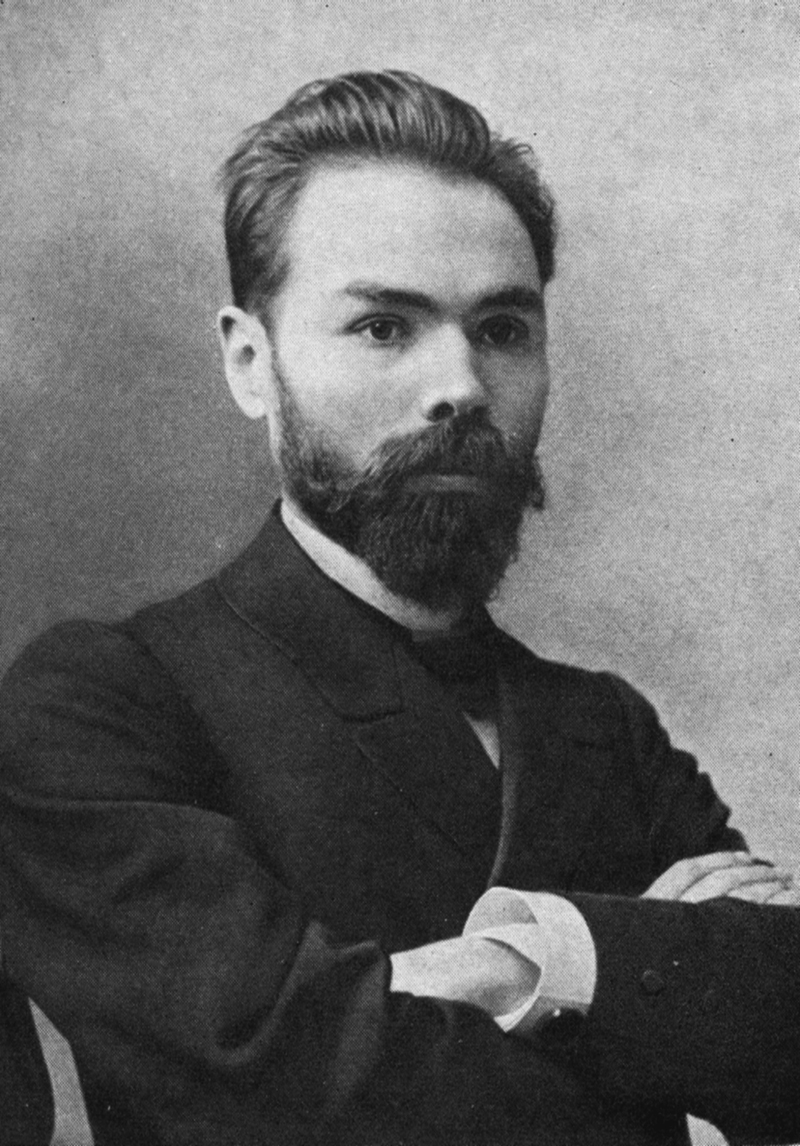 Photo portrait of Valery Bryusov, taken about 1906